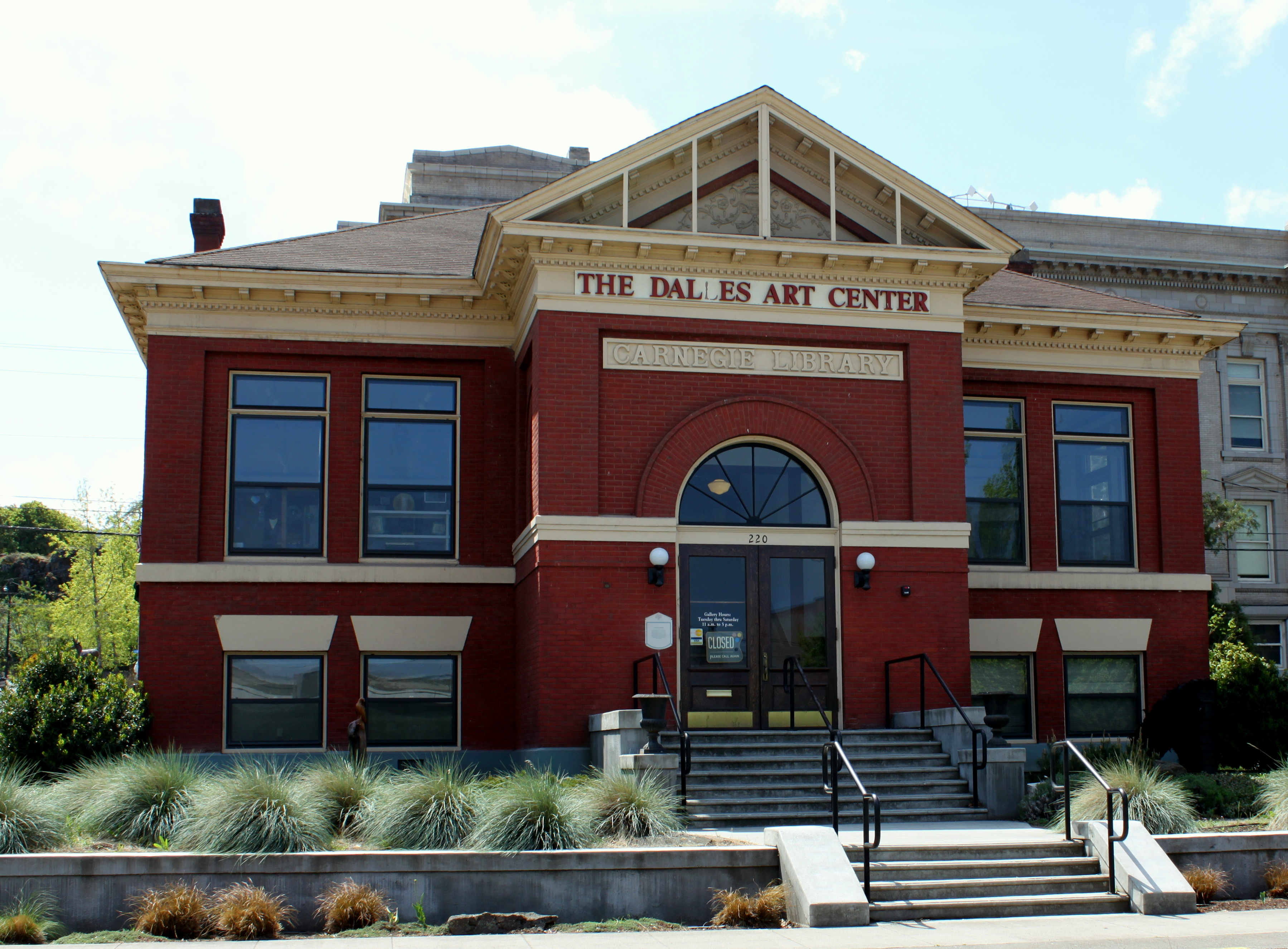 Former Carnegie library building in The Dalles, Oregon.